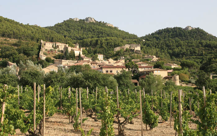 Village of Gigondas - Vaucluse, France